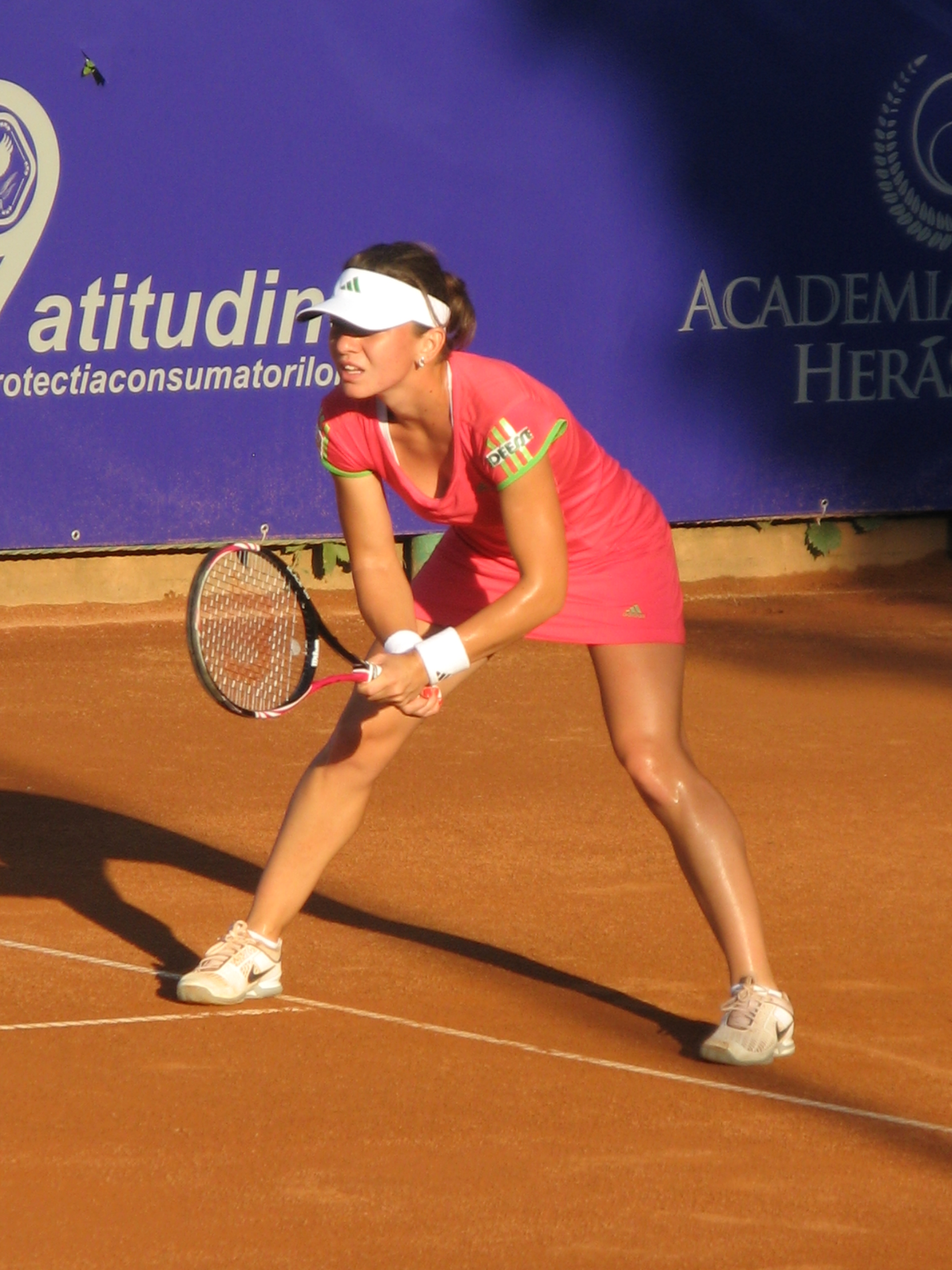 Simona Halep playing singles in the first round at the 2011 BCR Open Romania Ladies